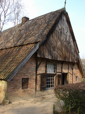 "Los Hoes" Saxon Farmhouse at open air museum Arnhem